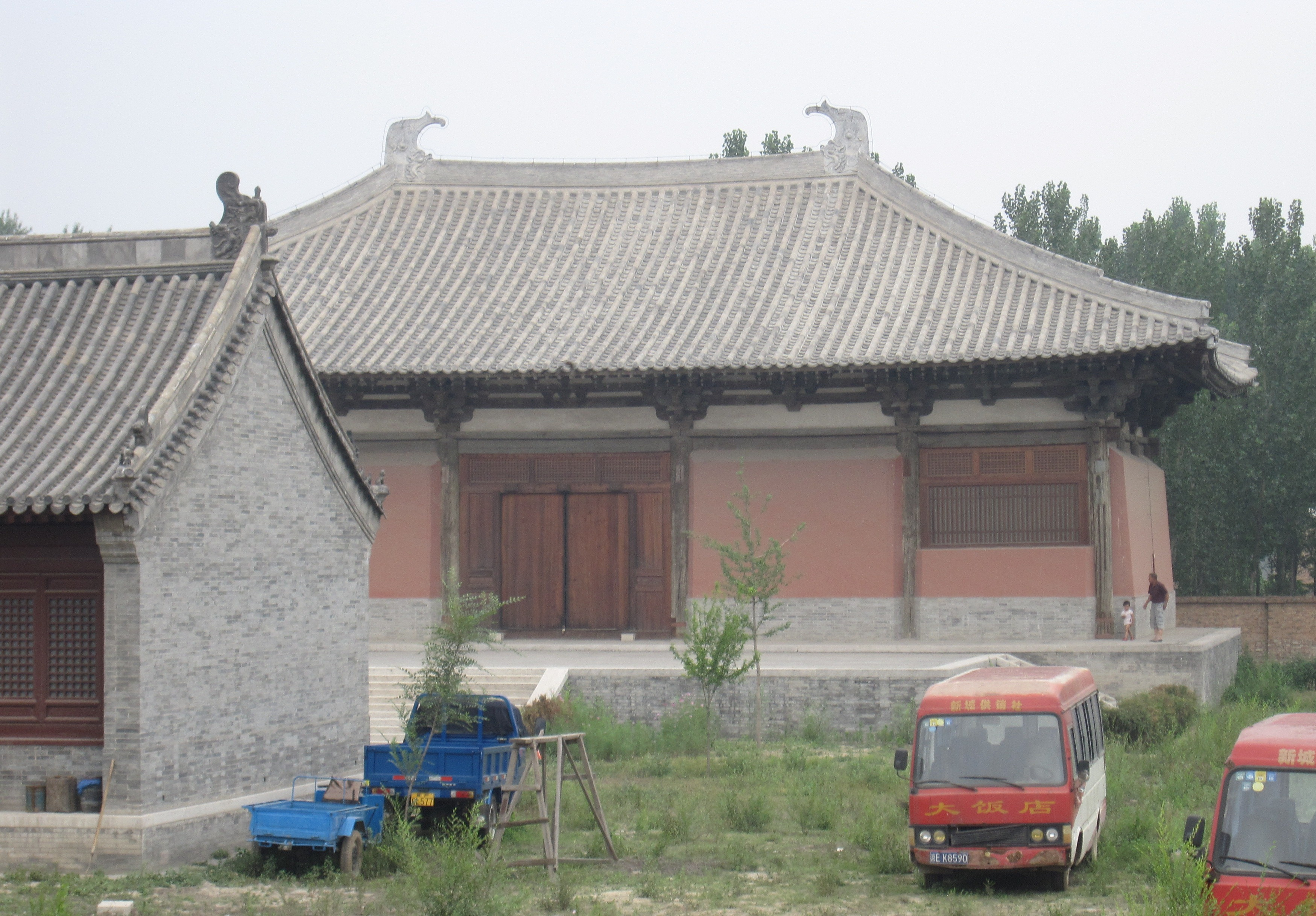 Photo of the Daxiongbao Hall of that Kaishan Temple in Xincheng village, near Gaobeidian, Hebei. At the time the photo was taken on June 27, 2010, the temple was closed for renovation (although the Daxiongbao Hall has already been completed).